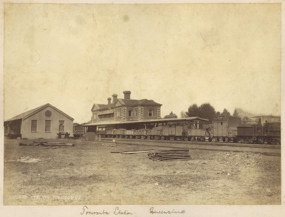 Goods train at the Toowoomba railway station. The station building was erected in 1867 and is the oldest surviving masonry railway station in Queensland.